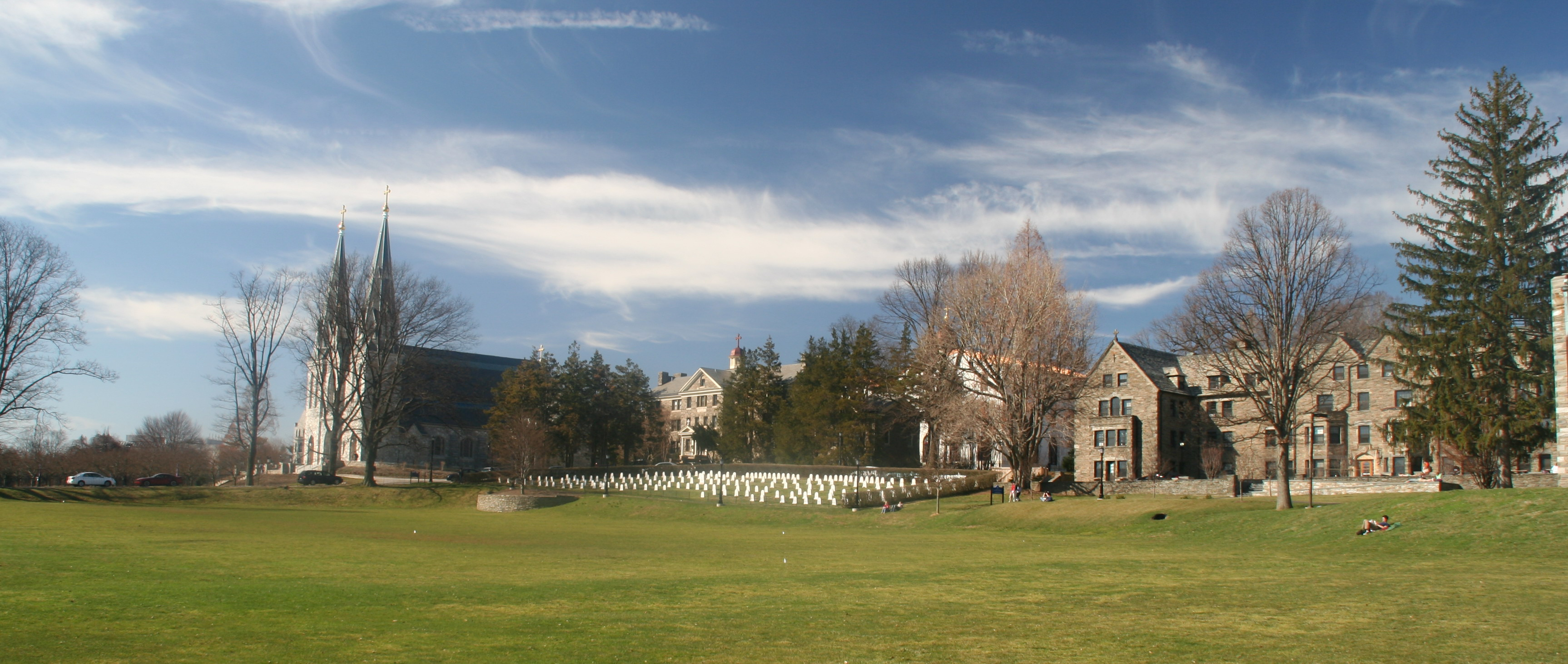 A panoramic shot of Villanova University.